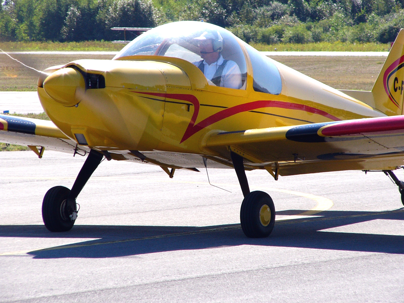 Zenair CH300 TD at the Carp, Ontario, Canada Fly-in